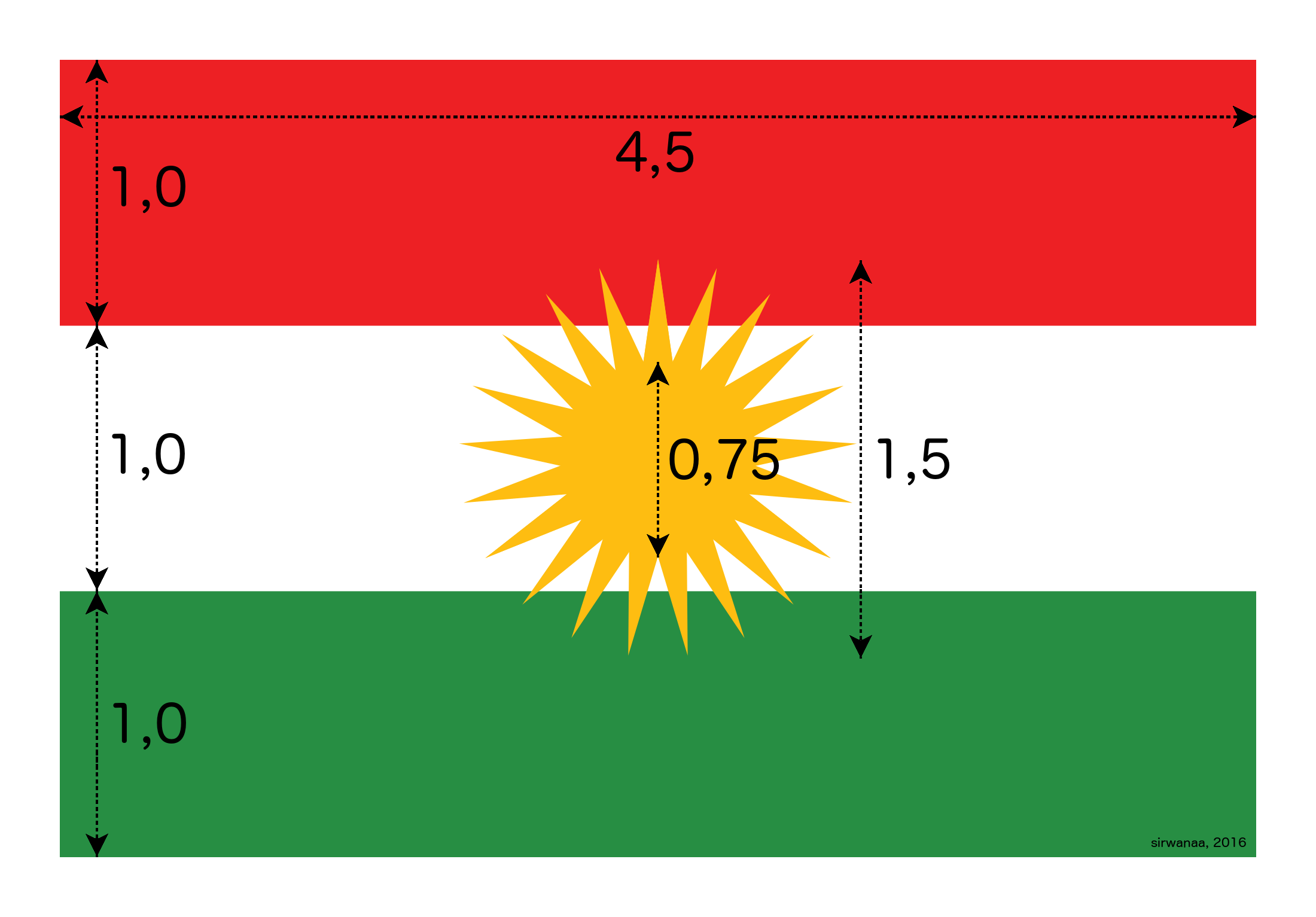 Dimensions of the flag of Kurdistan